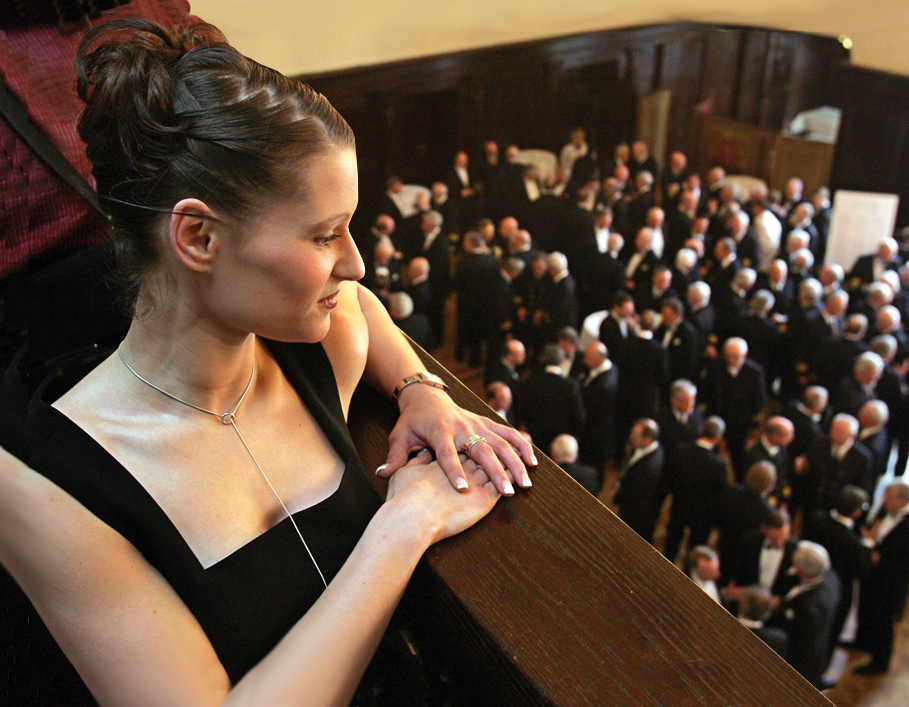 A "Schaffer meal" in Bremen, which is held annually by shippers and merchants of the city. The photograph shows the wife of one of the organizers looking down from a gallery at guests of honour arriving in the ballroom of the Bremen Town Hall shortly before the dinner, which is held in the adjacent Upper Town Hall. Women are traditionally excluded from the event, but this practice is now increasingly under fire. (Note: The metadata of the photograph is clearly incorrect, since "Schaffer meals" are always held on the second Friday in February every year.)